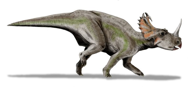 Centrosaurus apertus, a ceratopsian from the Late Cretaceous of North America, pencil drawing, digital coloring